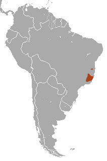 Northern Muriqui (Brachyteles hypoxanthus) range